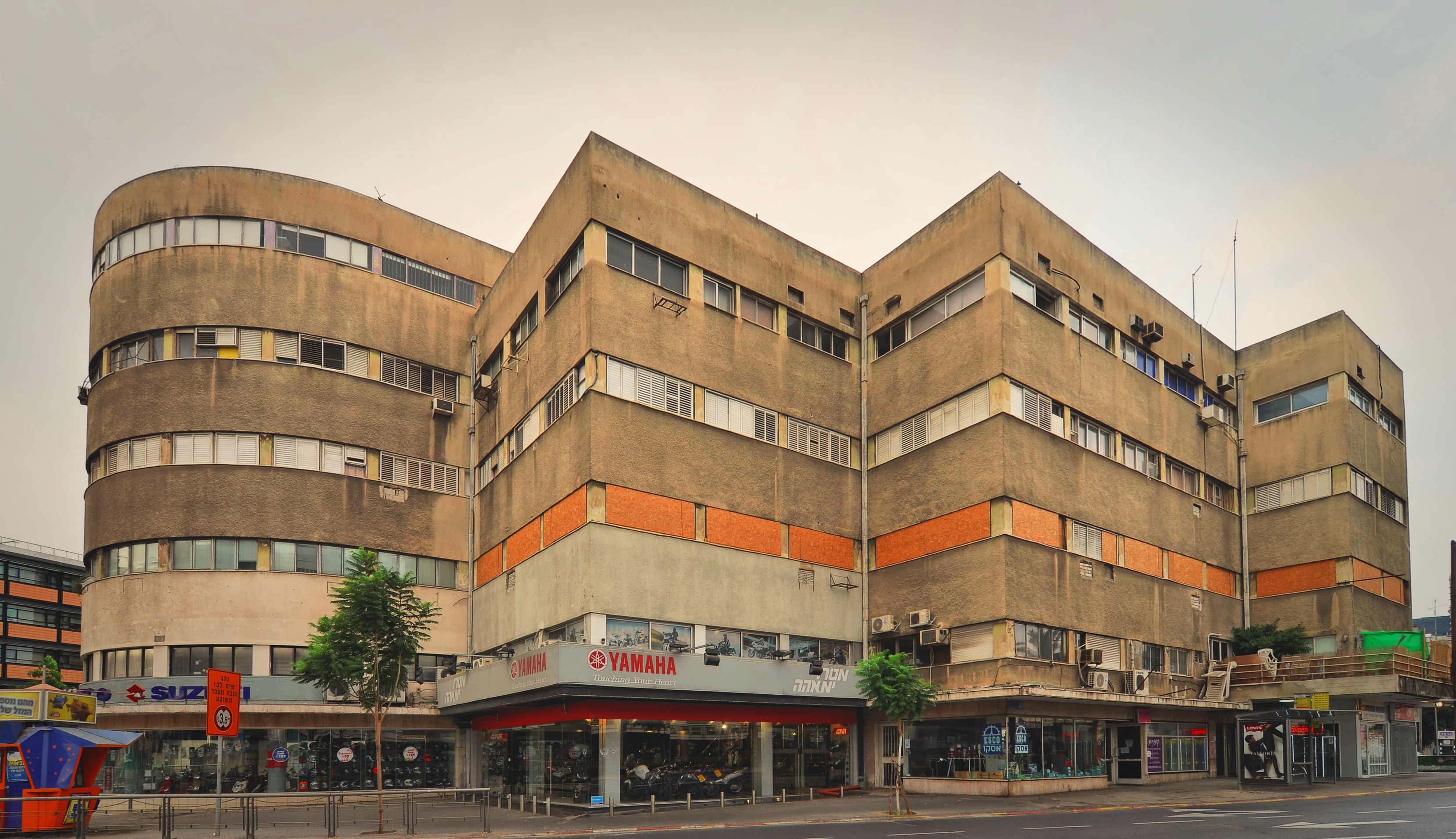 בית הדר